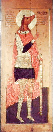 Russian icon of Saint Christopher. Мученик Христофор. XVII в.